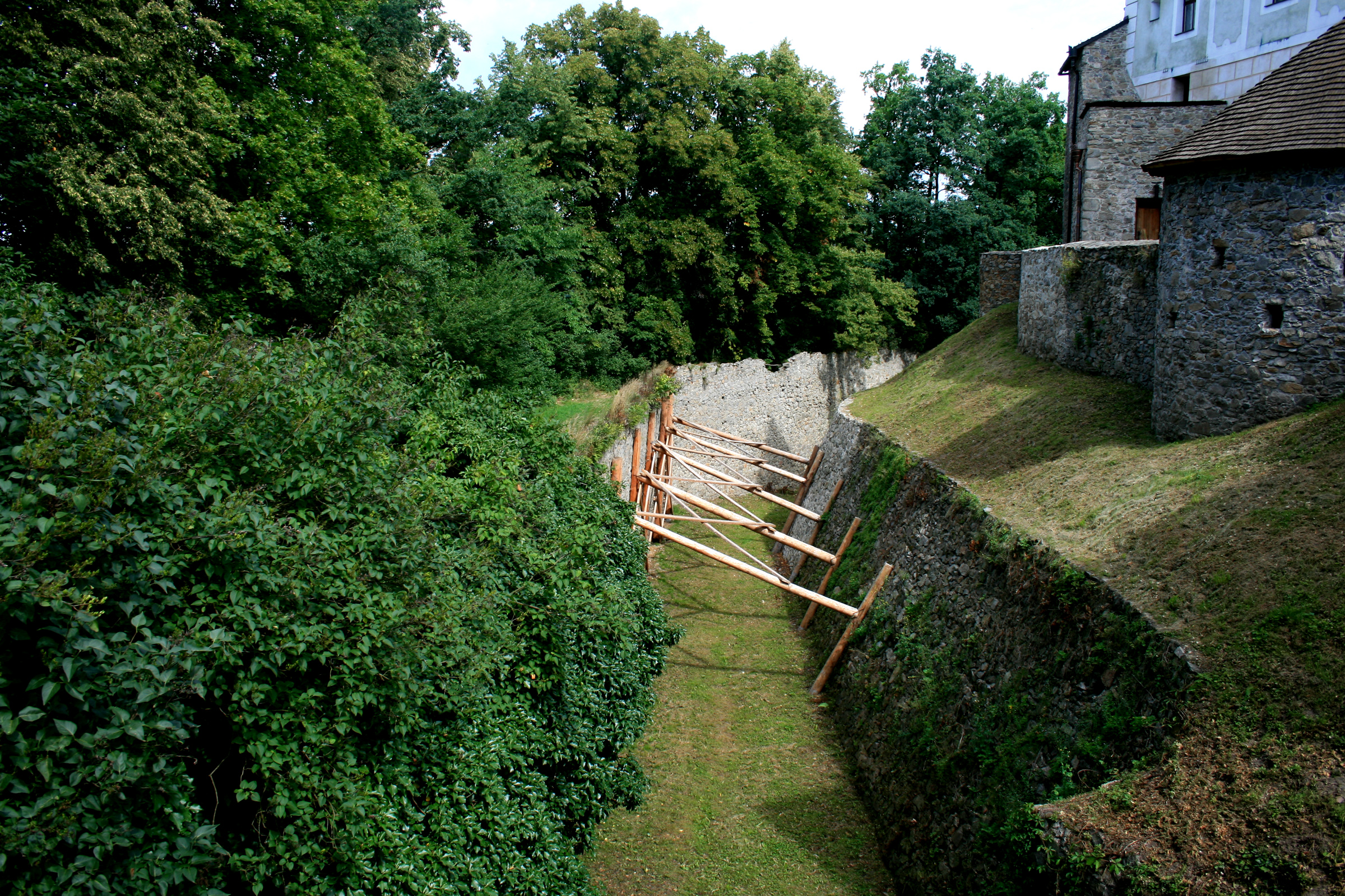 Old castle in Nové Hrady, South Bohemia, Czech Republic. Falling wall of castle moat.